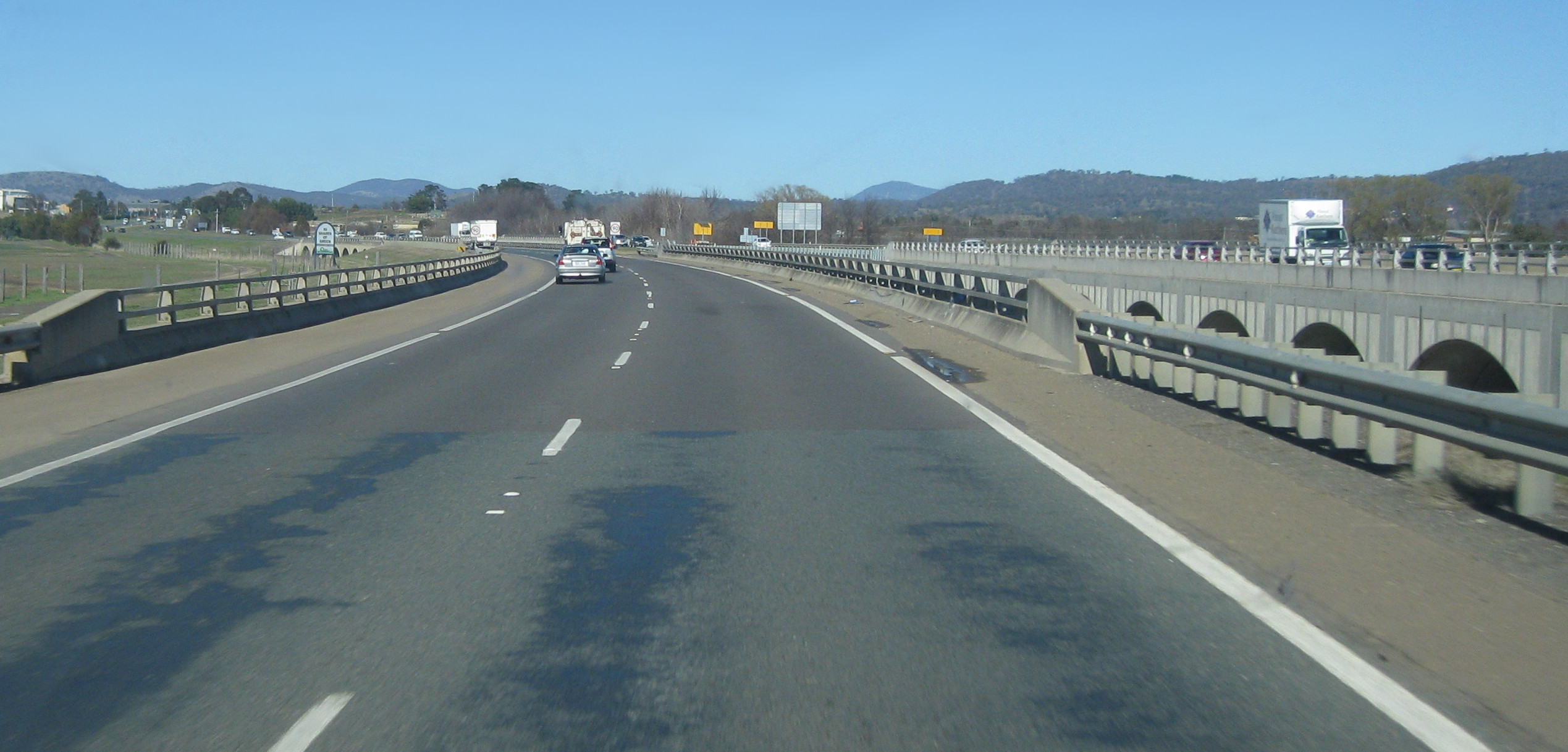 Monaro Highway heading southbound at Fyshwick